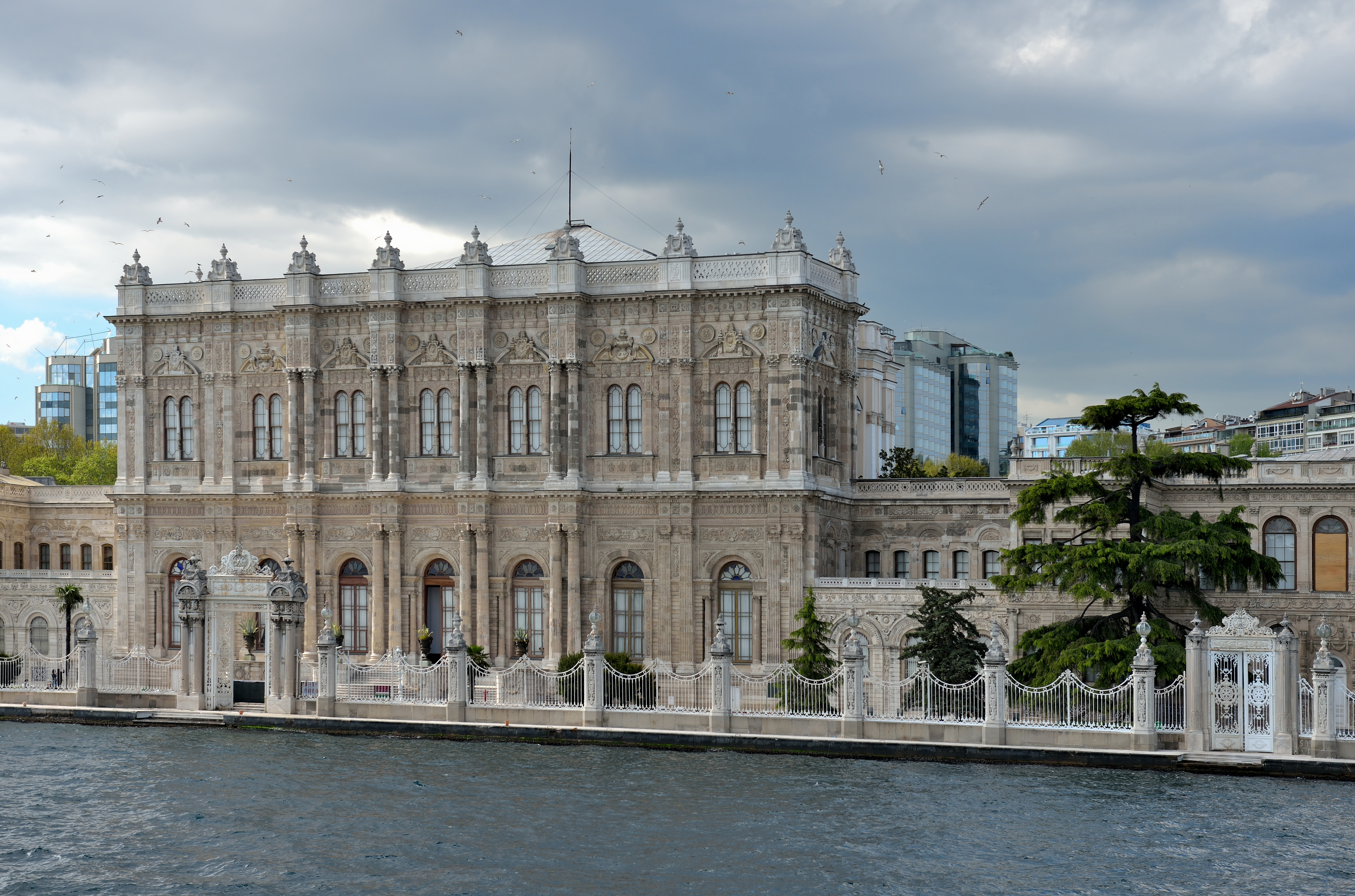 Dolmabahçe Palace and the gate of the Sultan from the Bosphorus in Istanbul, Turkey.